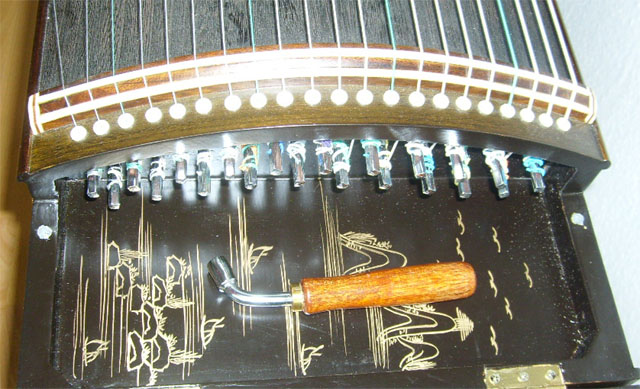 Mechanics of a Yatga (or Gu Zheng, Kayegum, Koto, Dan Tranh)